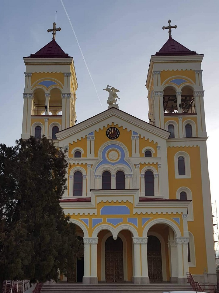 Church in Sekirovo, township of Rakovski, December 26, 2018